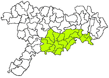 Chittoor revenue division in Chittoor district